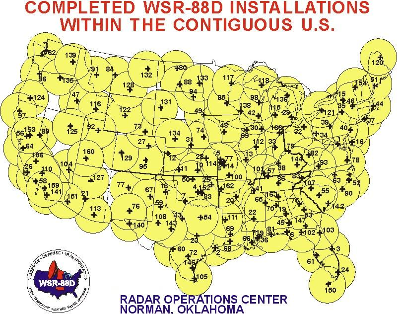 American NEXRAD radar network of weather radar under the authority the National Weather Service of NOAA.